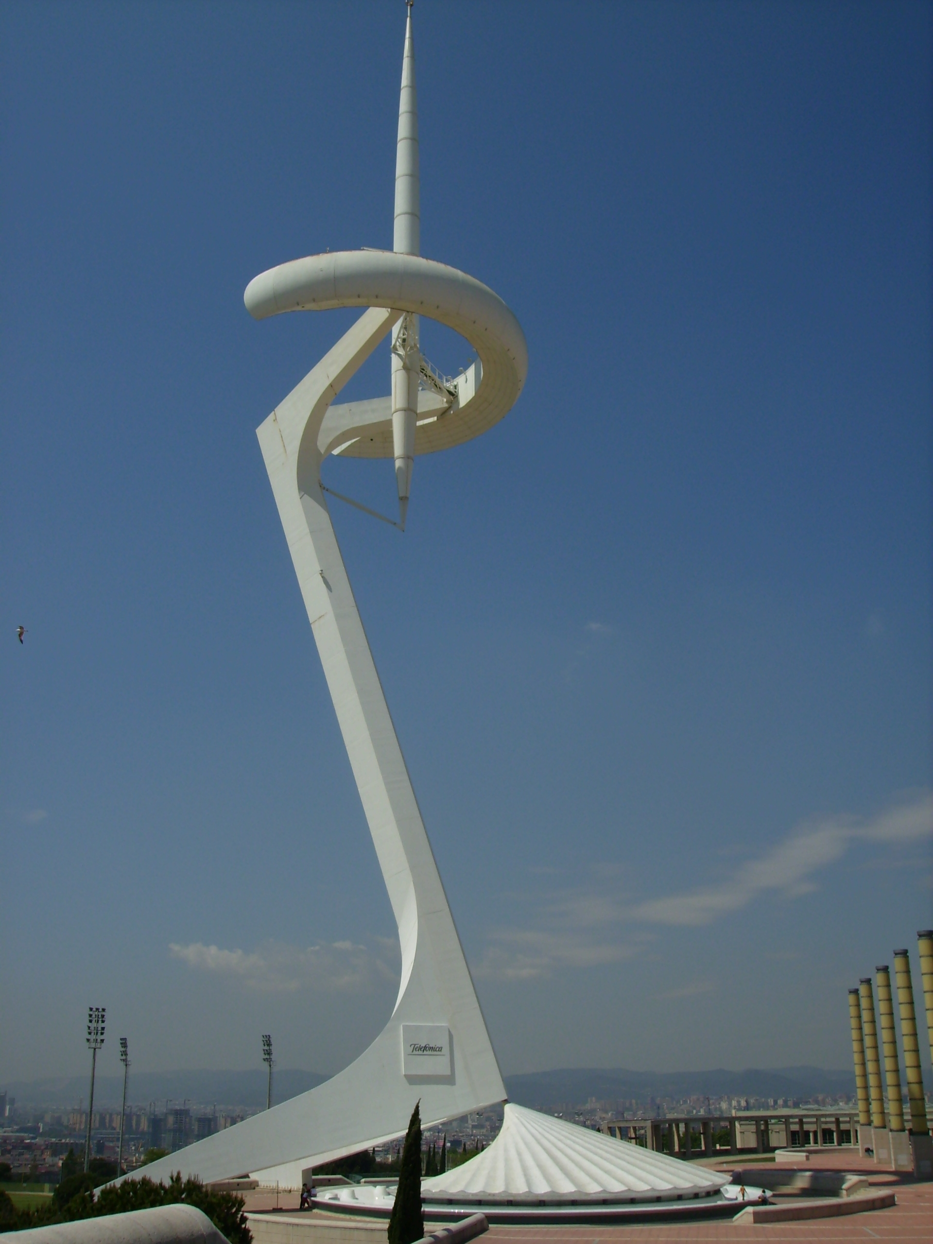 Montjuic Communications Tower in Barcelona (Catalonia)